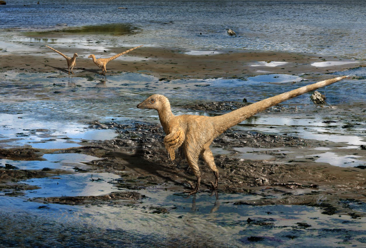 A palaeoreconstruction of IVPP V22530, the earliest known dromaeosaurid, next to its inferred depositional setting, a muddy lake environment.